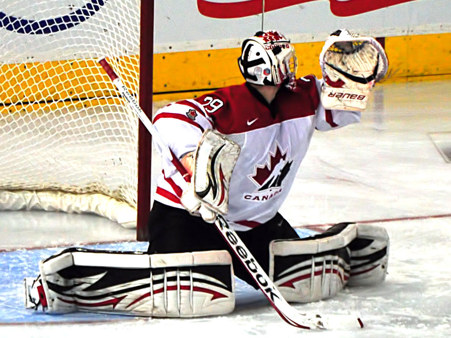 Canadian goaltender Mark Visentin during a game against Finland during the 2012 World Junior Championships on December 26, 2011, in Edmonton, Alberta, Canada.